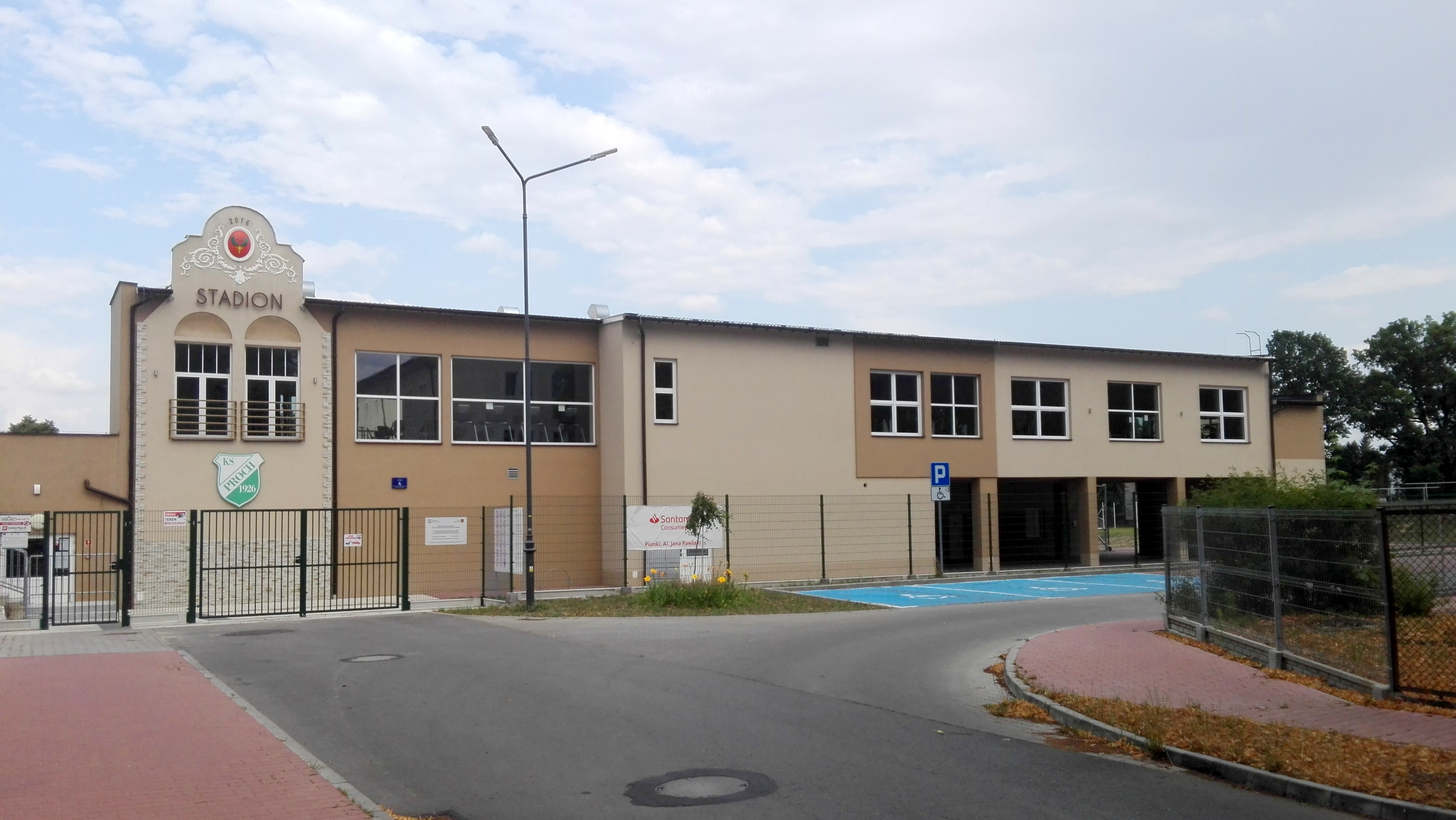 1 Sportowa Street in Pionki. Municipal Stadium in Pionki